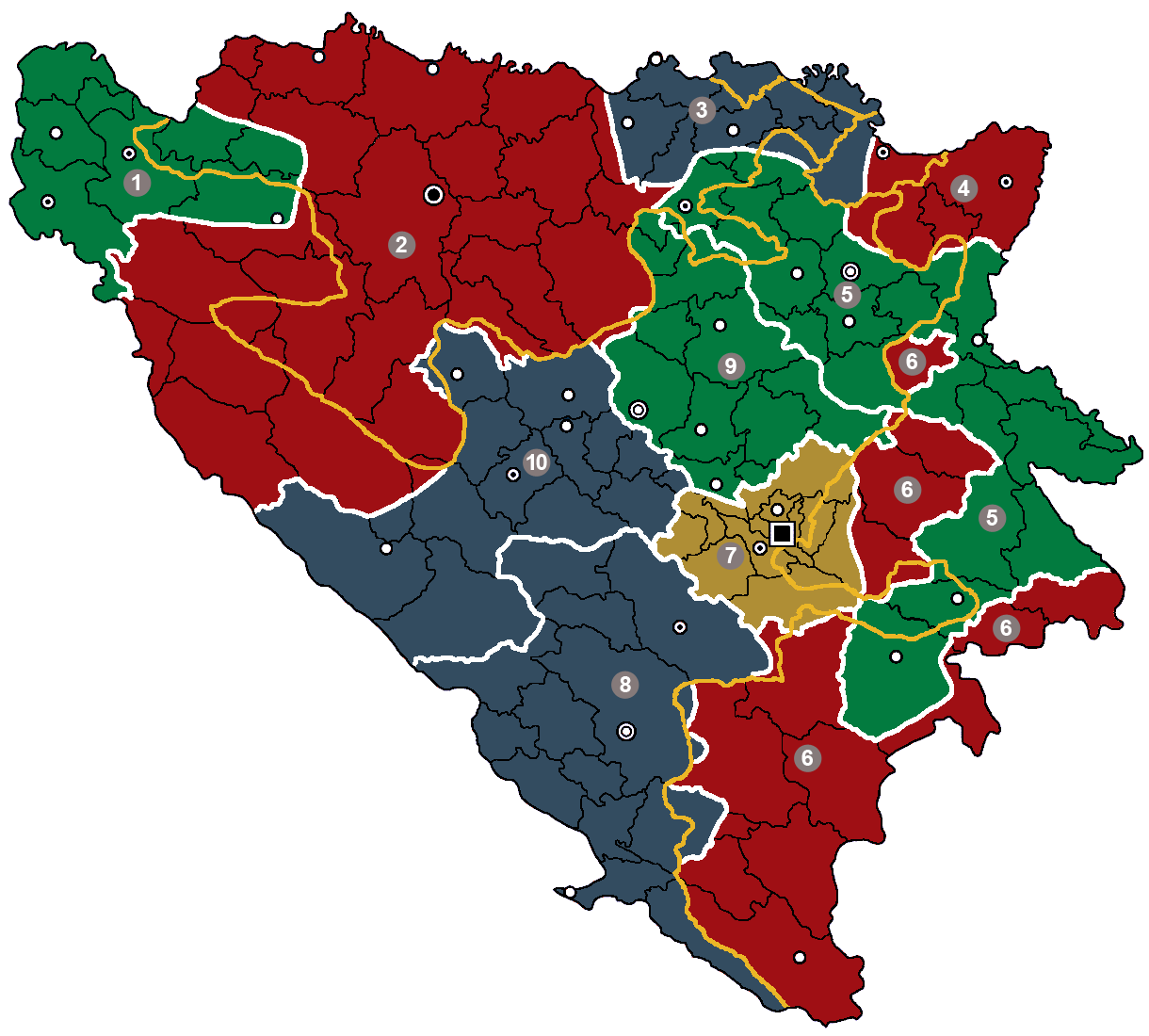 Map of the Vance-Owen peace proposal for Bosnia and Herzegovina in January 1993 Based on the map in Balkan Odyssey, p. 96